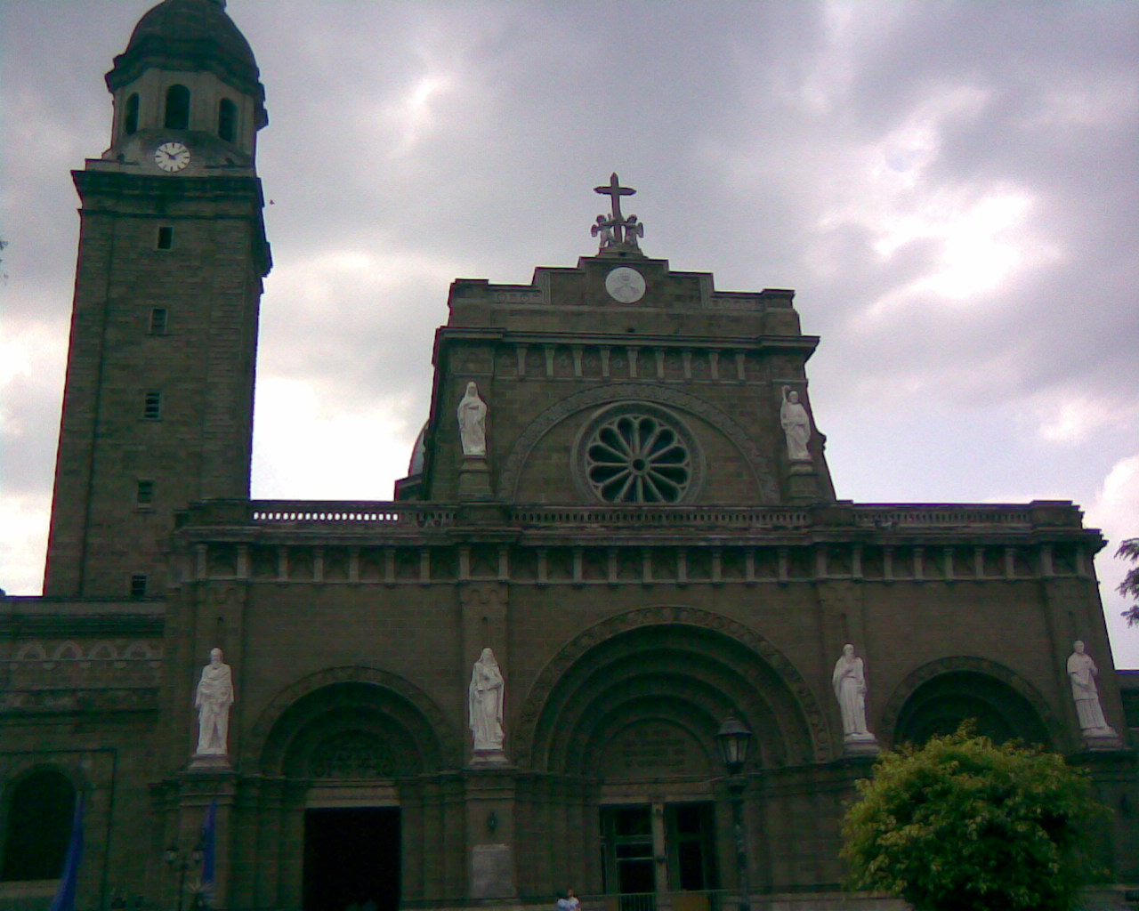 The façade of the Manila Cathedral